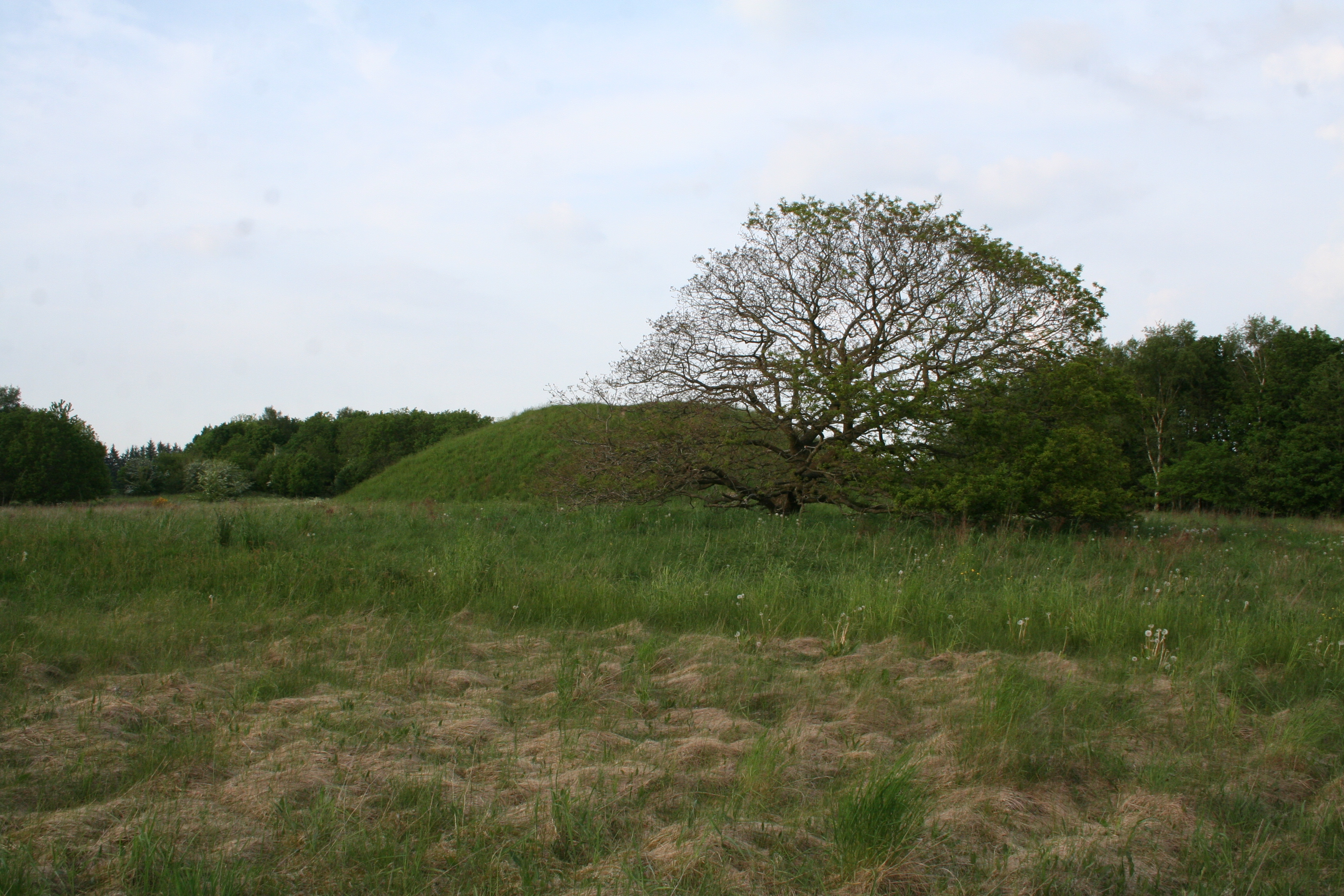 Barrow and museum near Egtved